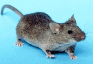 Common house mouse (Mus musculus), wild type.